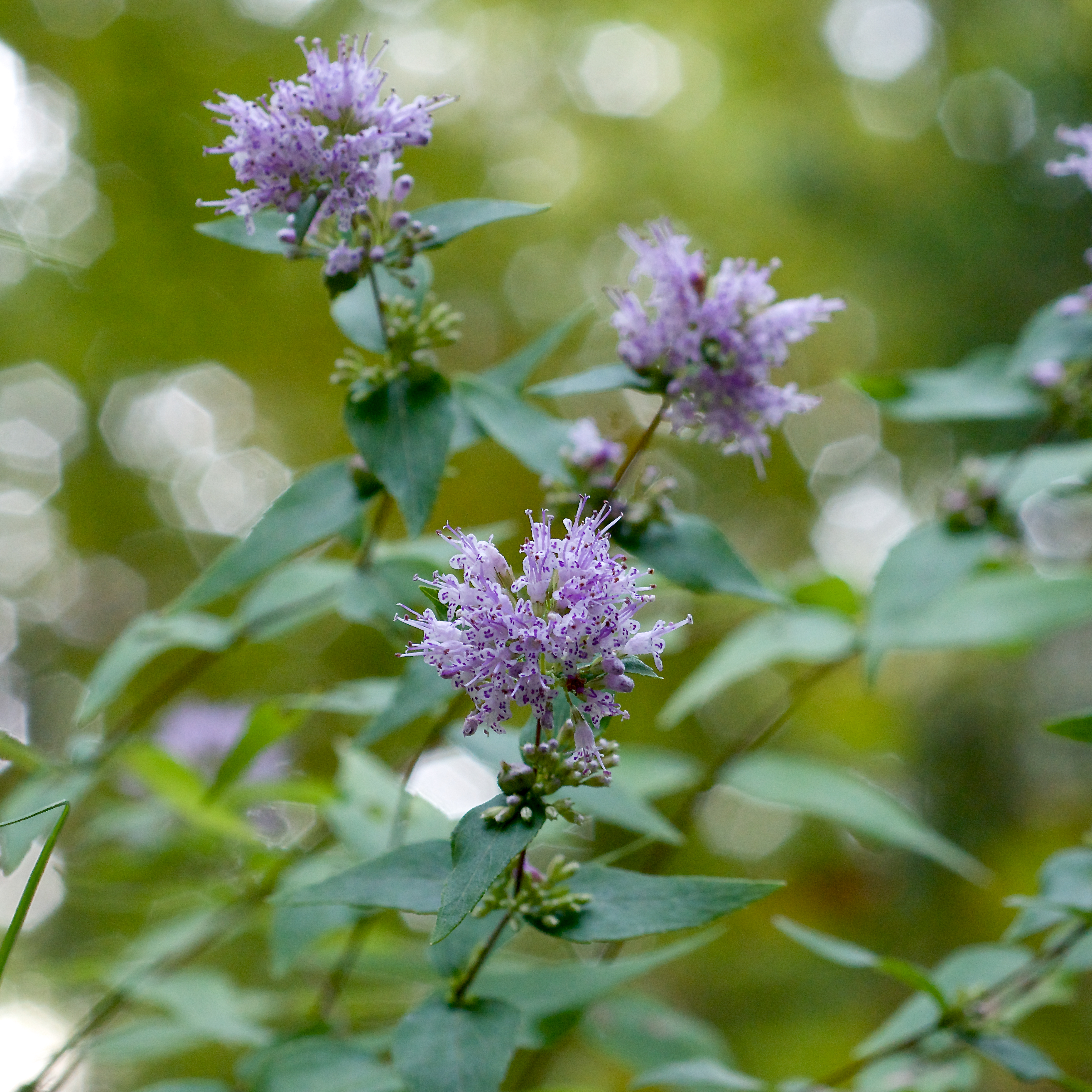 Species from eastern North America below the Great Lakes Common name: Common dittany, American dittany, mountain oregano Photographed on the North Sylamore Creek Trail, Ozark National Forest, Stone County, Arkansas